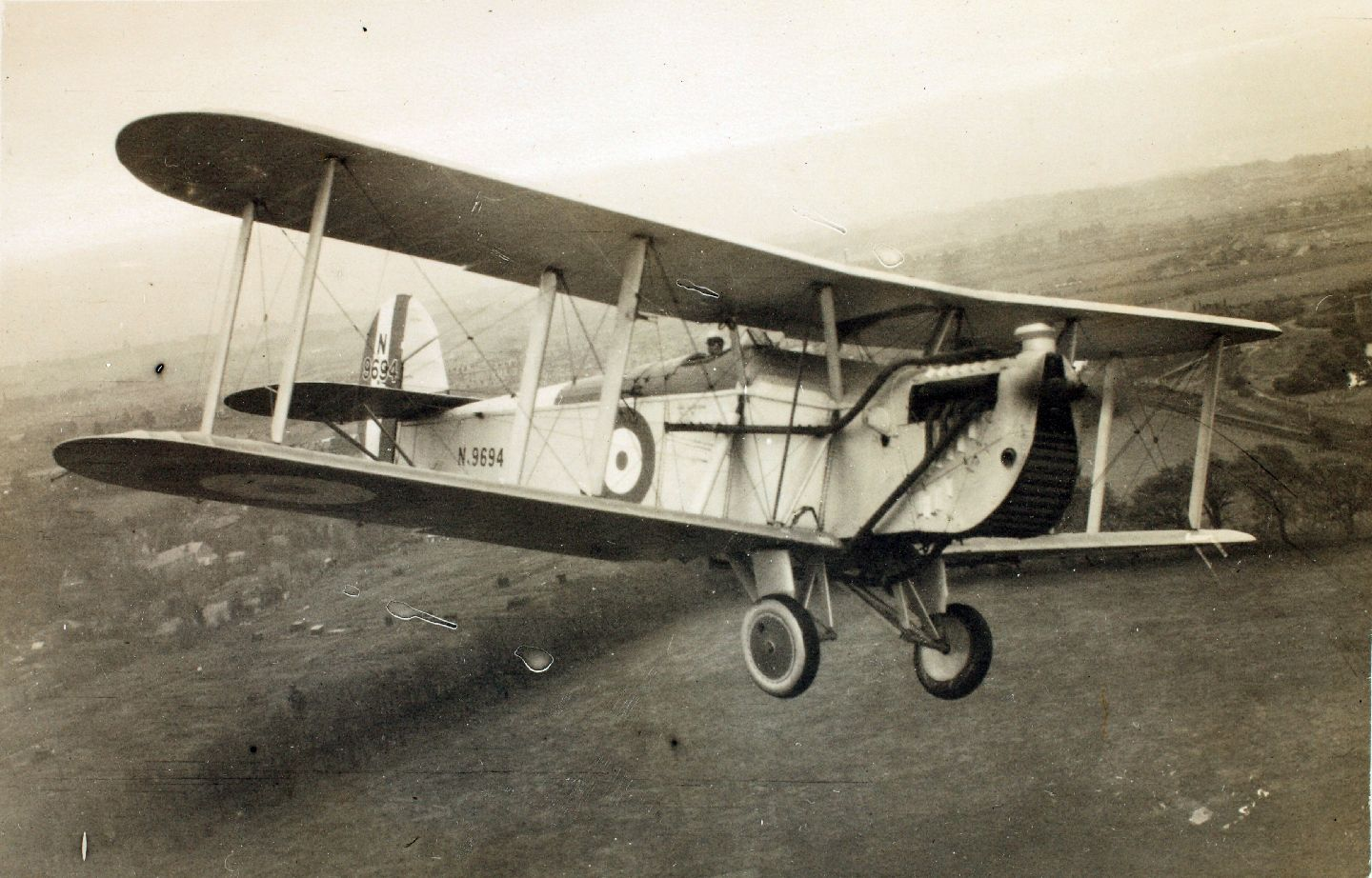 Blackburn Dart of Royal Air Force.